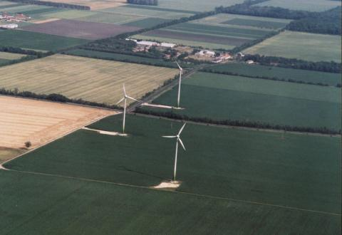 Újrónafő, Hungary, aerialphotgraphy